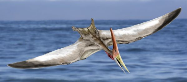 Pteranodon